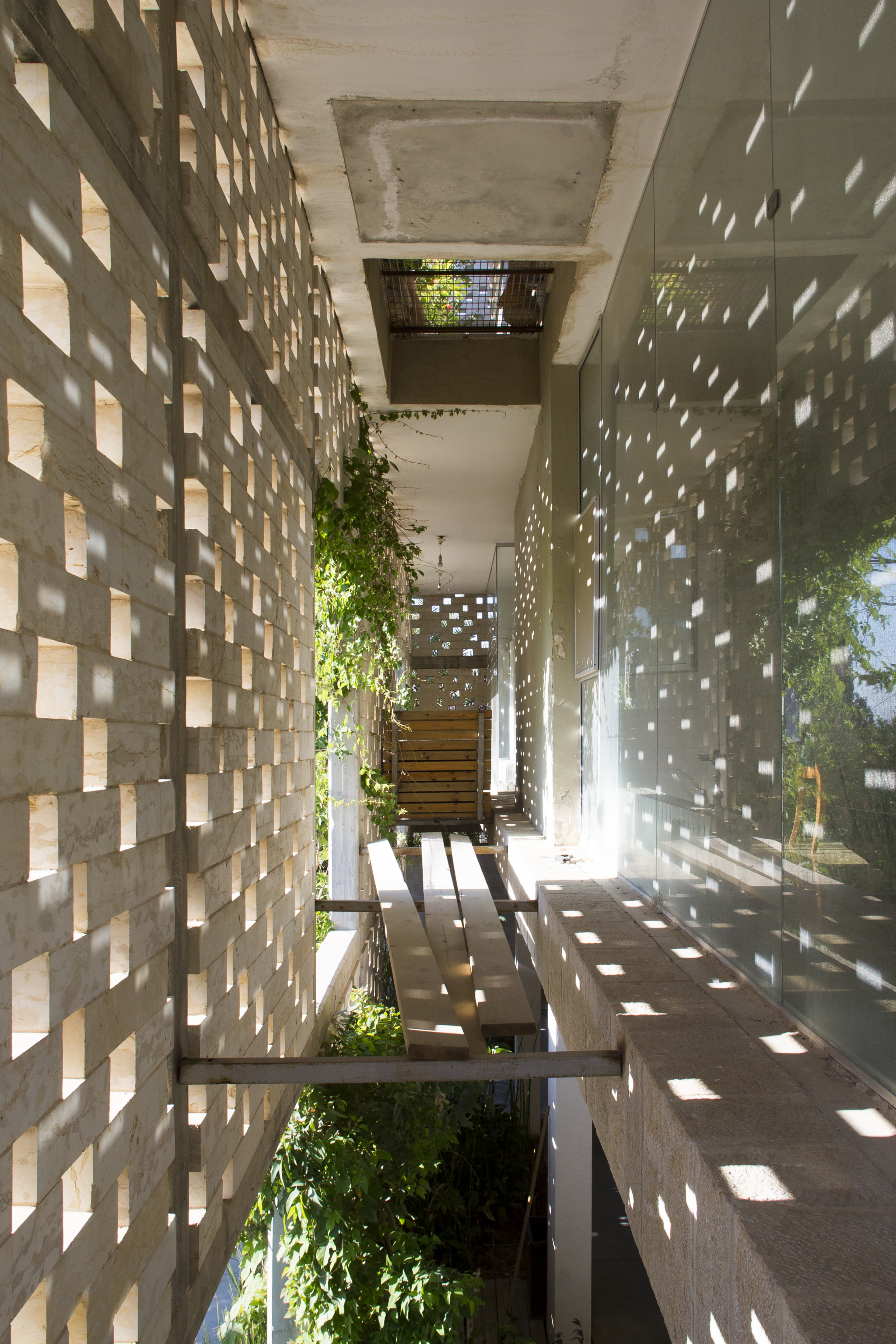 One of Senan Abdelqader's best known projects.